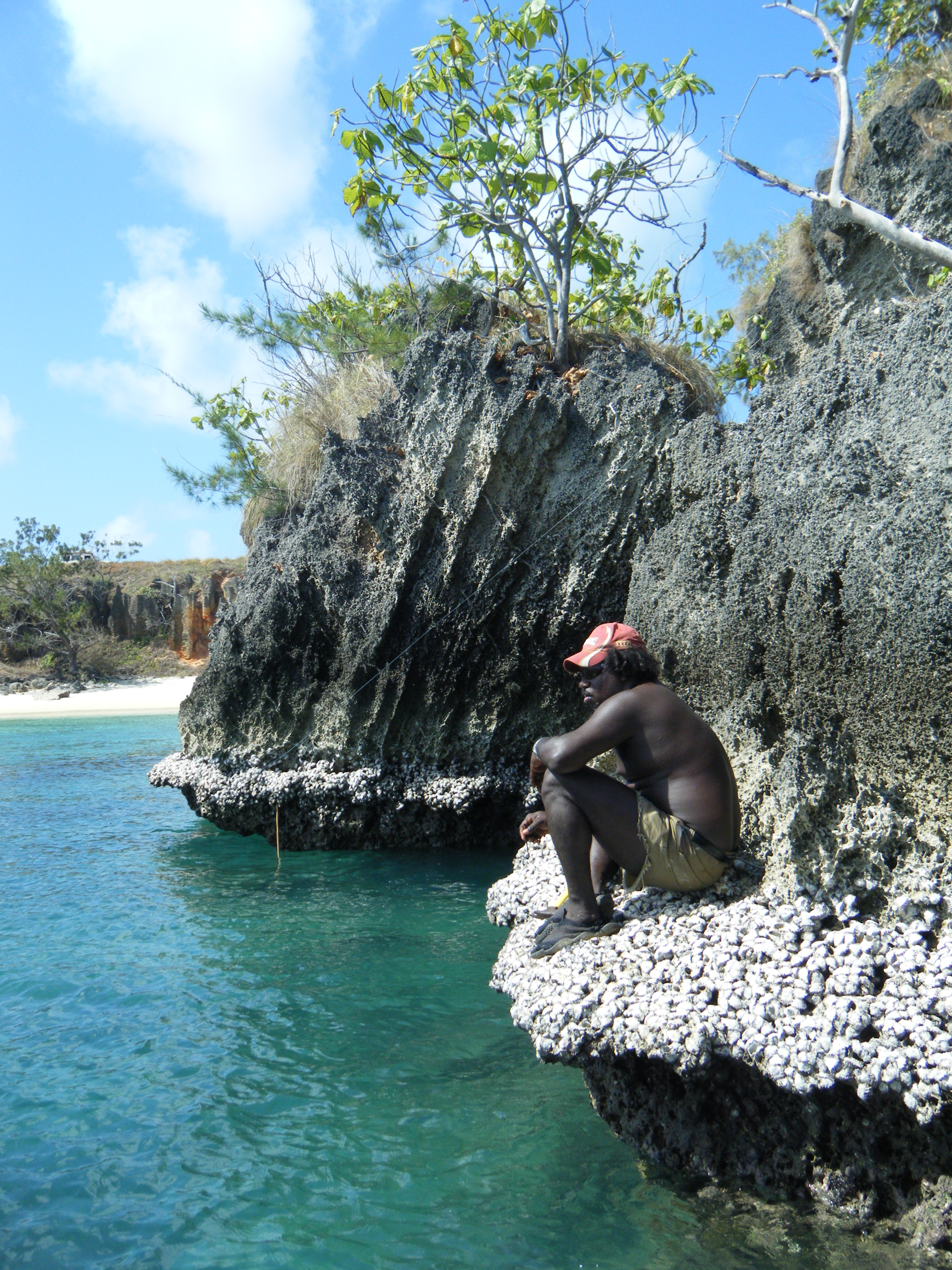 Djawa's brother Aaron Burarrwanga by the water at Bawaka, Arnhem Land, Northern Territory, Australia.